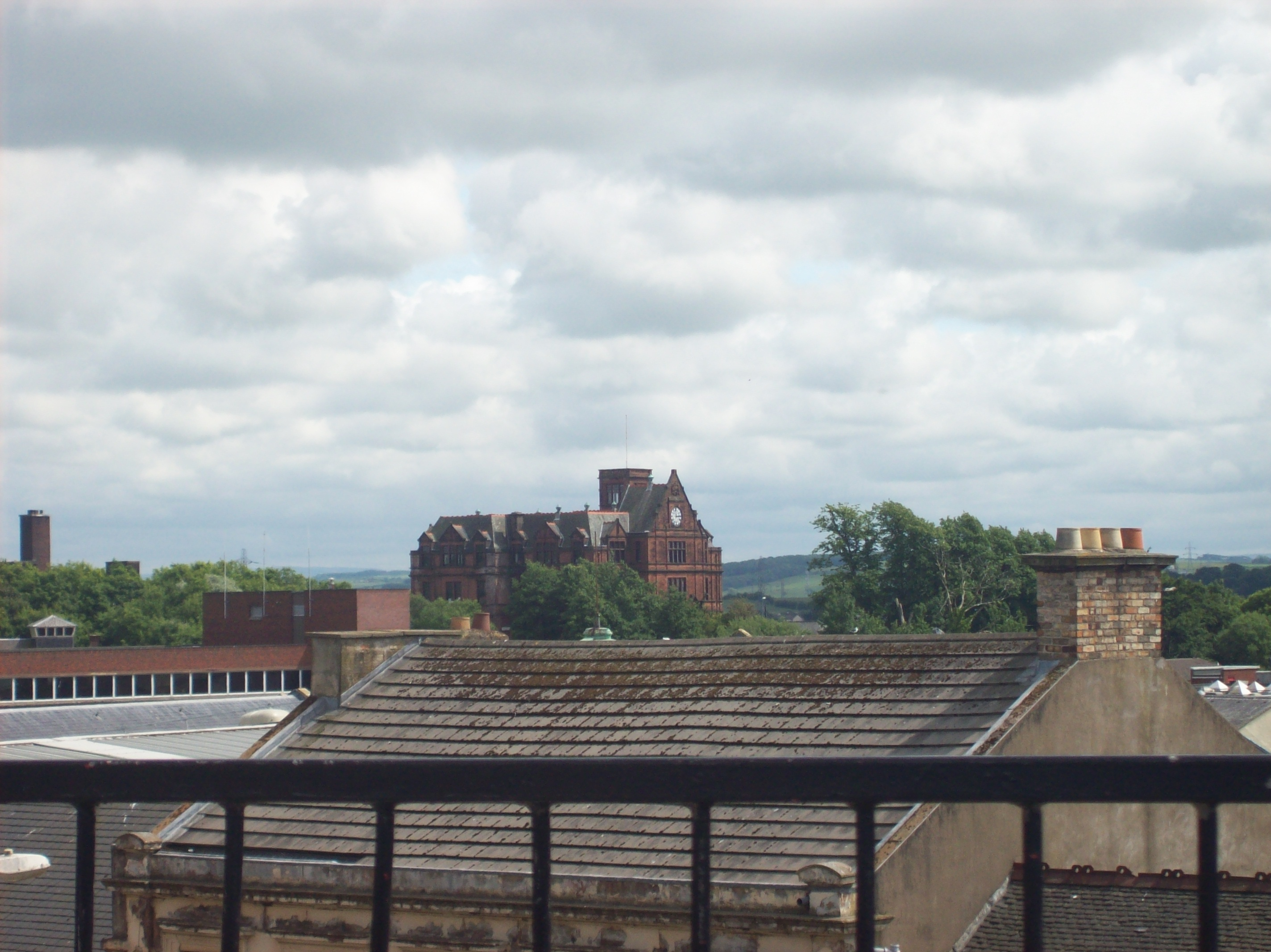 english